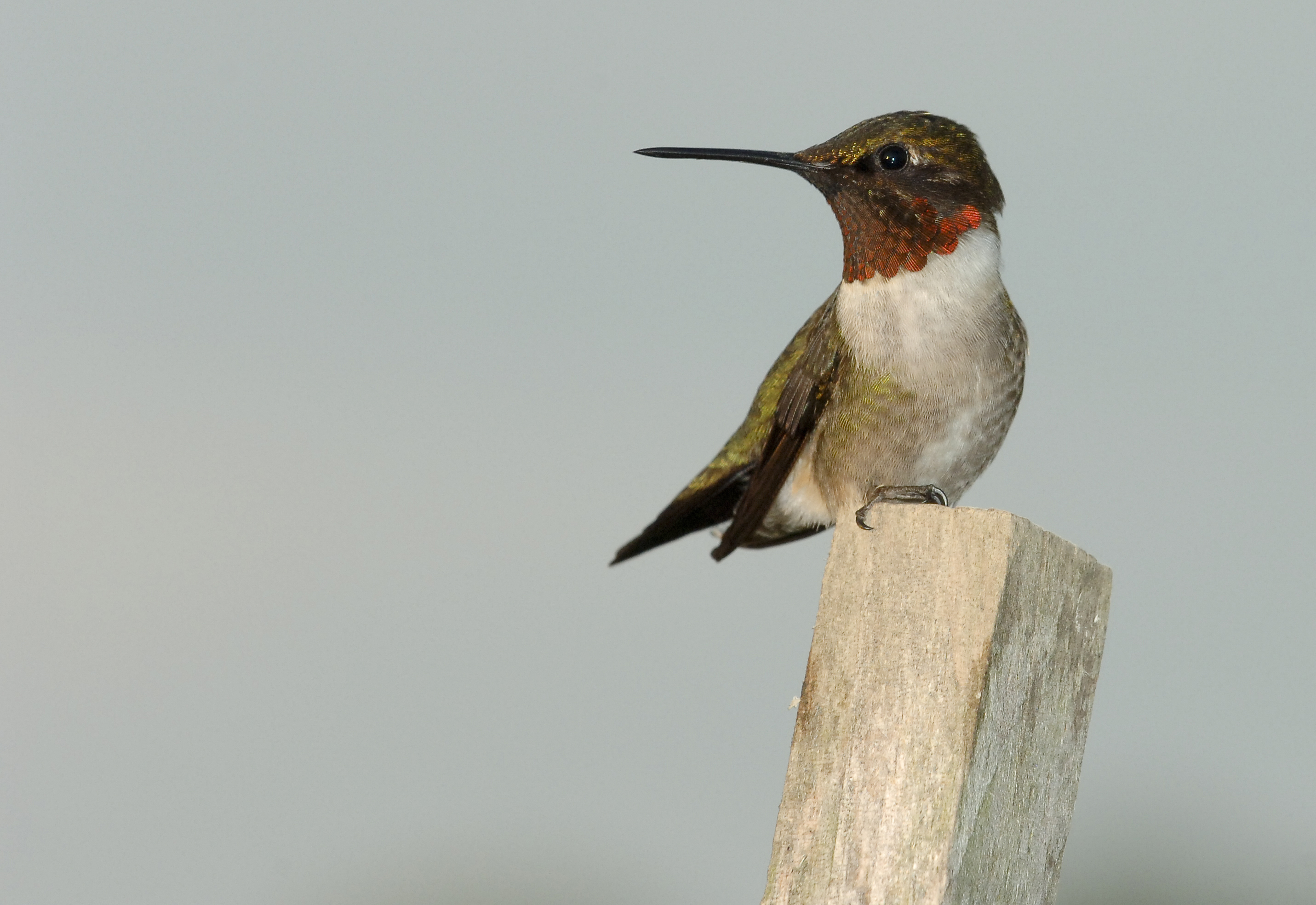 Male ruby-throated hummingbird (Archilochus colubris) guarding his territory from the top of a tomato stake. He will chase off any other hummingbirds that try to feed in "his" area.